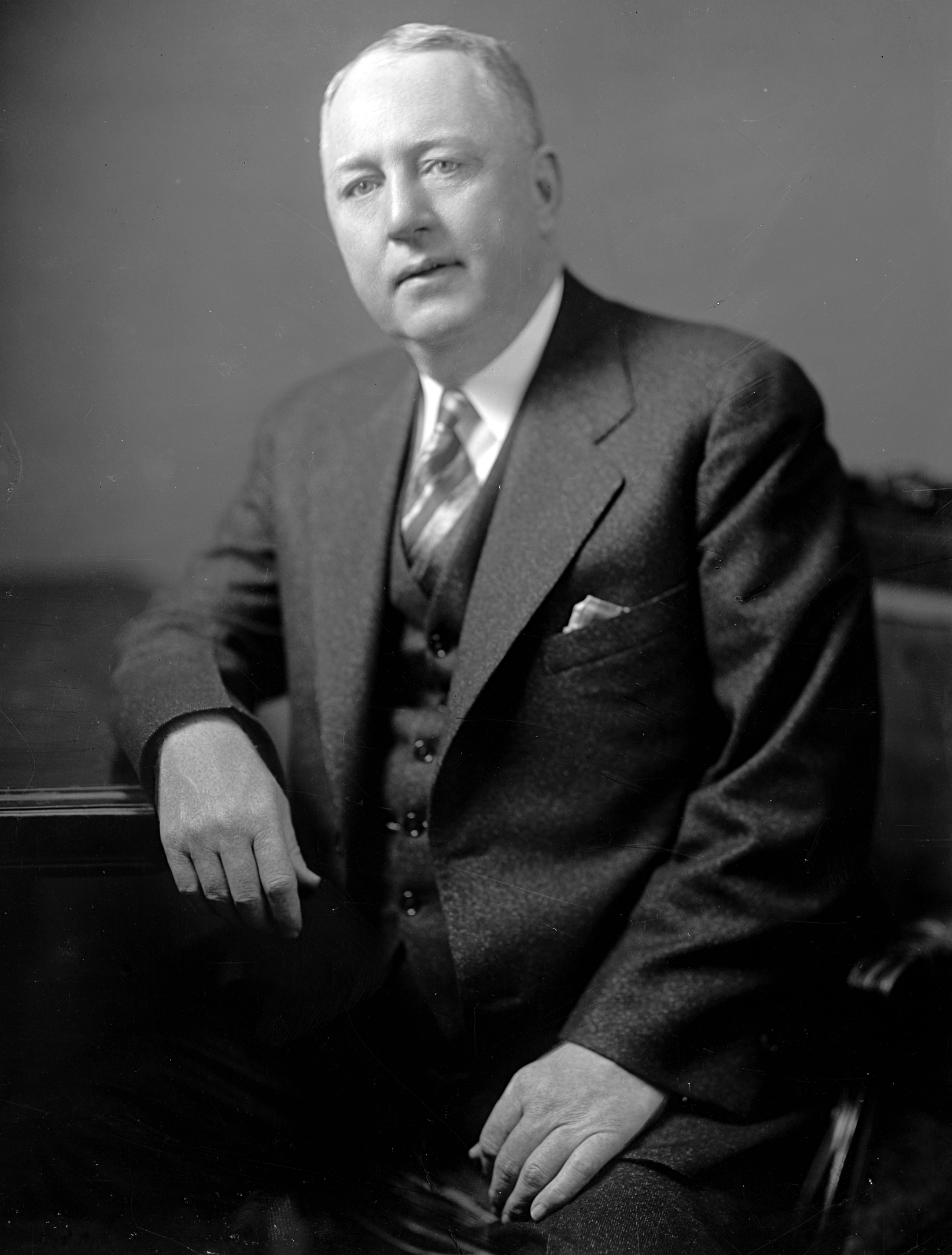 John J. Cochran, US Representative from Missouri